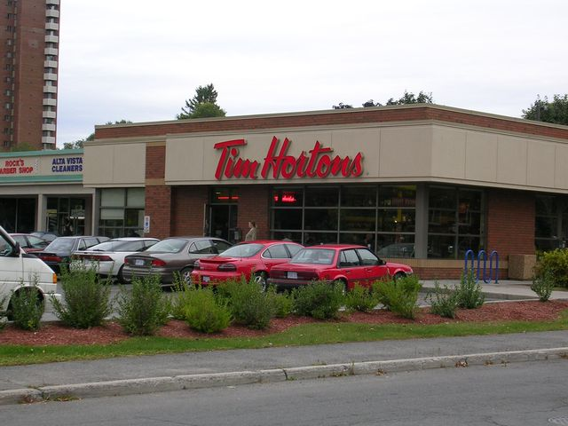 Tim Hortons in Ottawa, ON, Canada